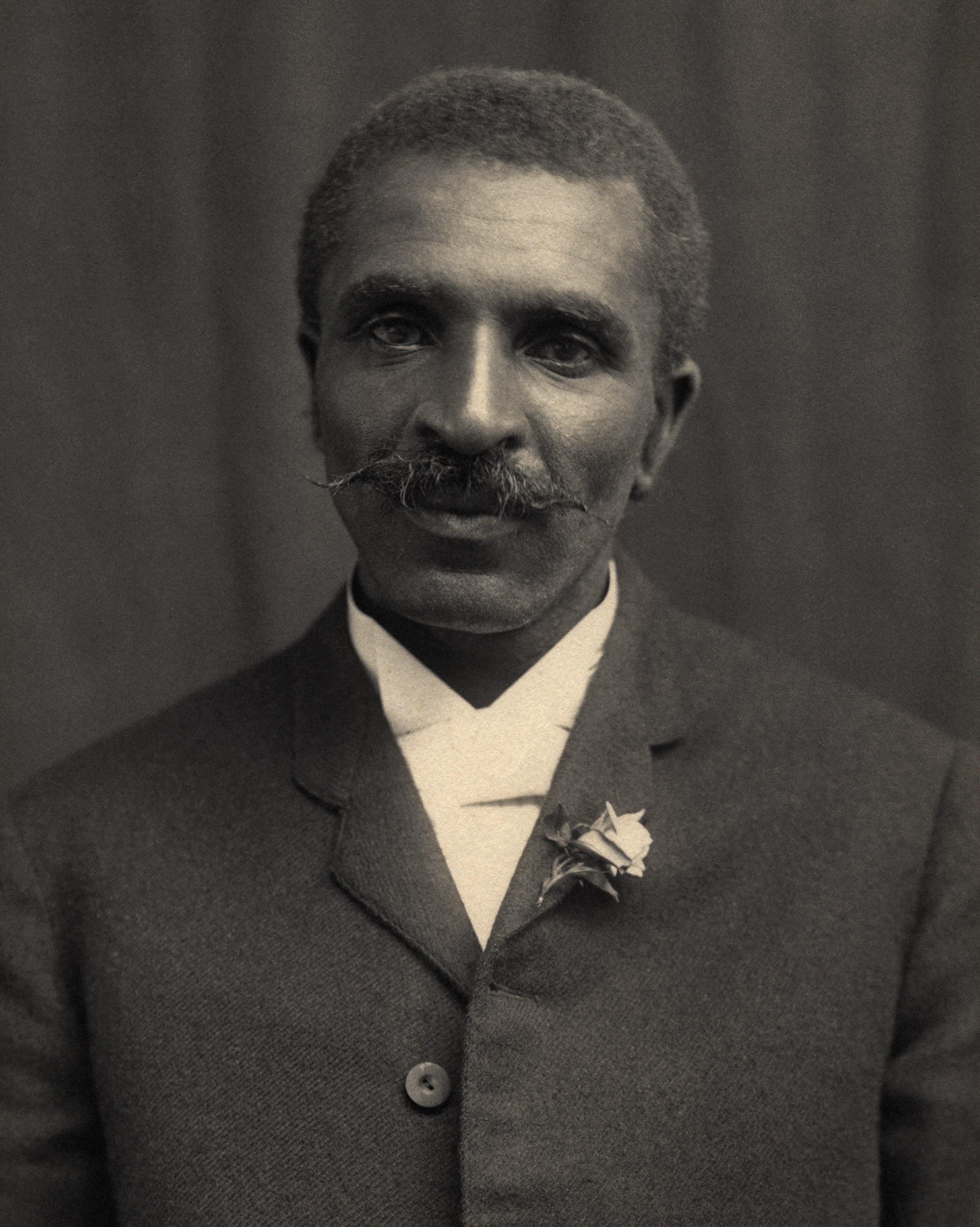 Botanist George Washington Carver. The image has been restored, with dust spots removed, and with levels adjusted to better File:George_Washington_Carver,_ca._1902.jpg match his actual skin tone. It was quite common for photographers to overexpose images of darker-skinned people to bring out details, but this was often fixed for publication, and, if uncorrected, has problematic consequences for how history is imagined.